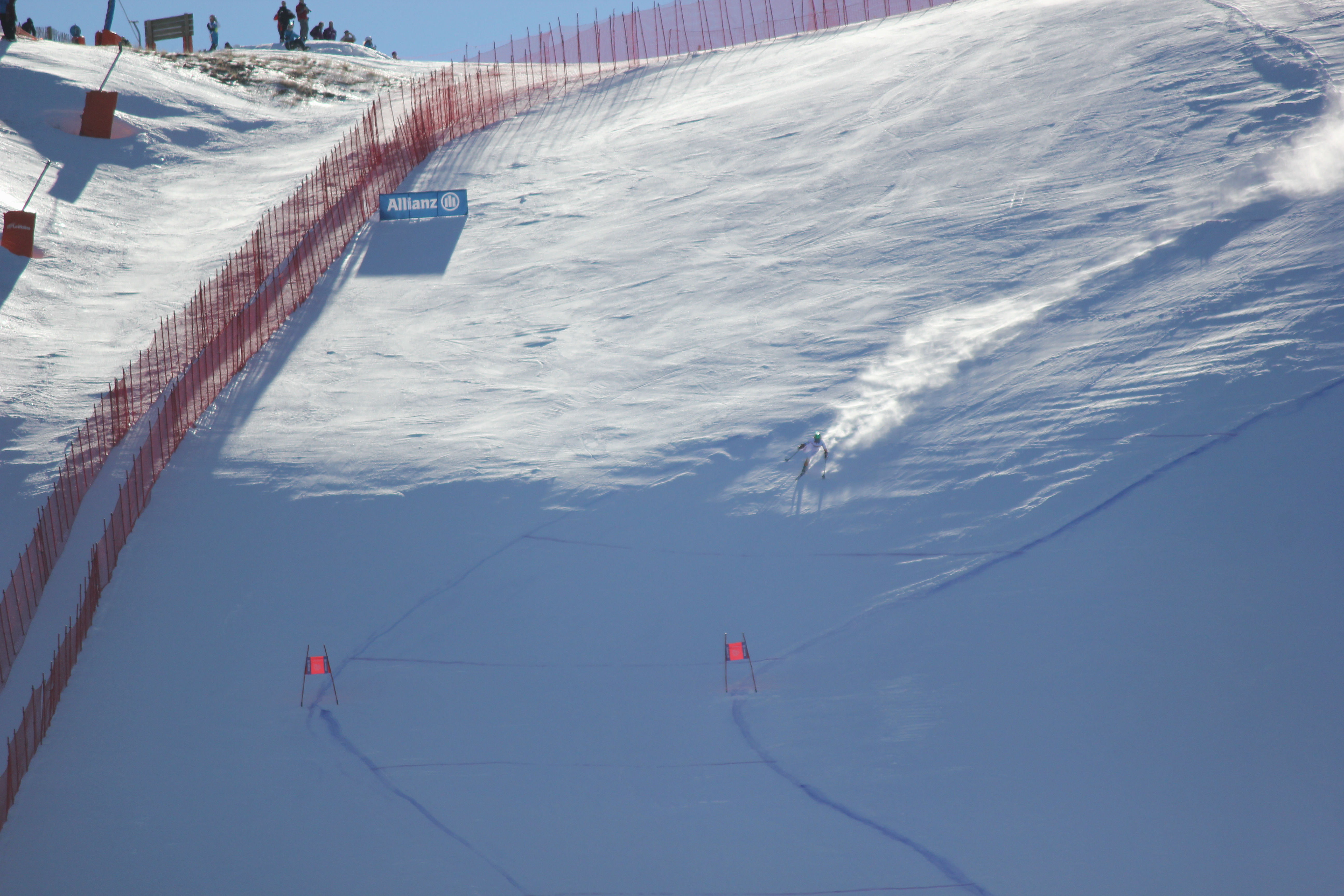 At the 2013 IPC Alpine World Championships in La Molina Spain. Downhill event. Women's standing group. Anna Jochemsen of the Netherlands.